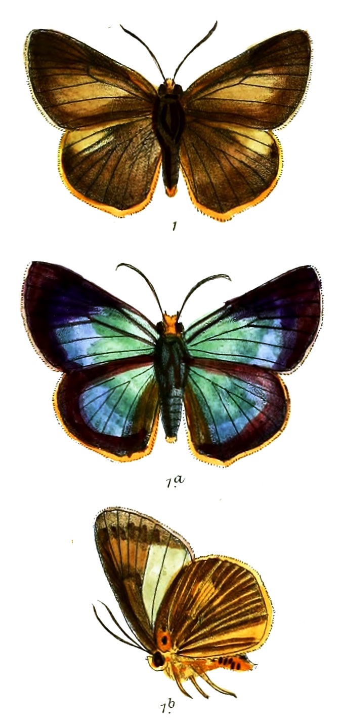 Burara harisa (male, female, male underside)